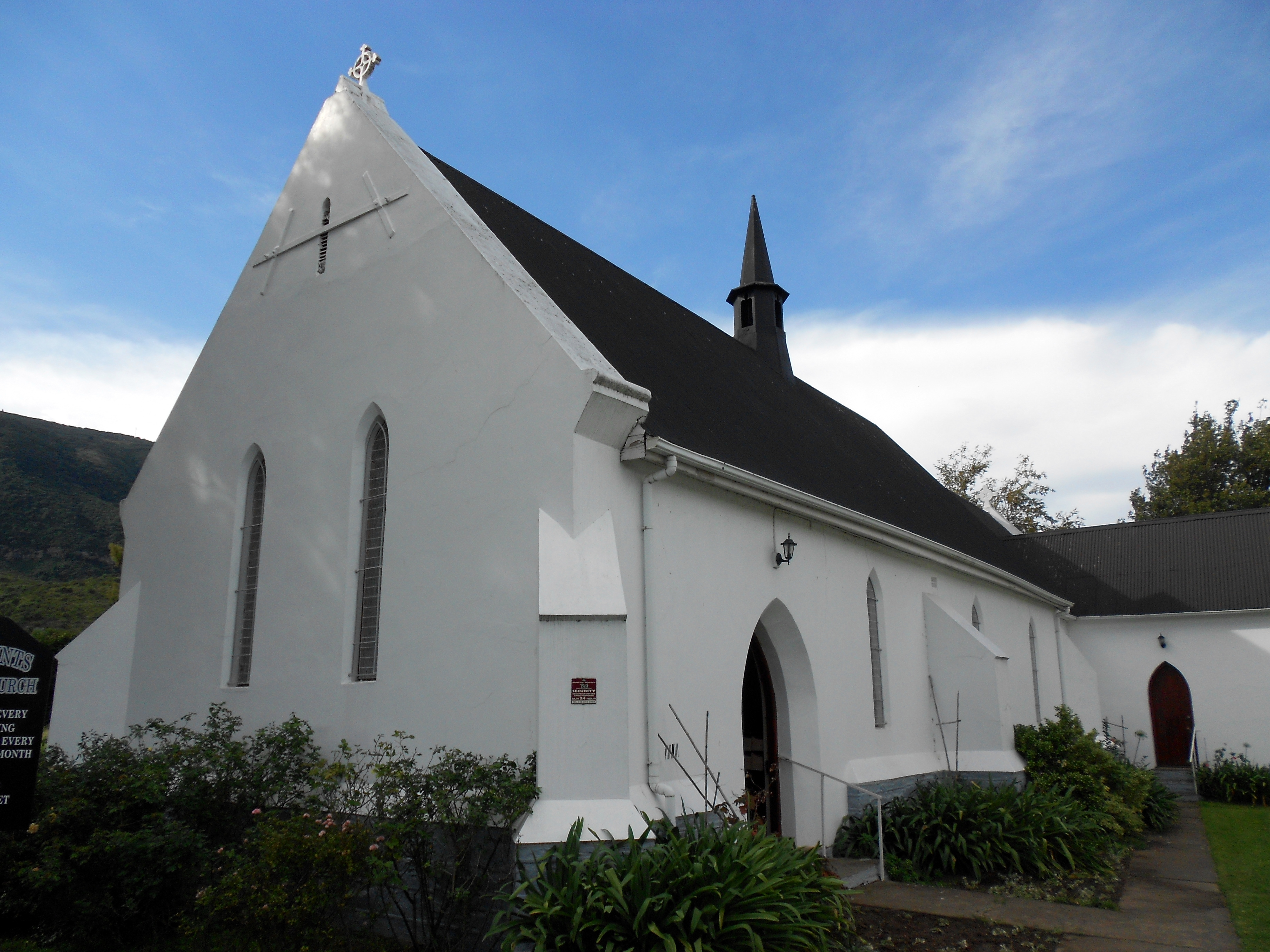 Somerset East : All Saints Anglican Church (1855)